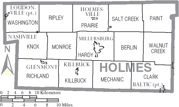 Map of Holmes County, Ohio, United States with township and municipal boundaries